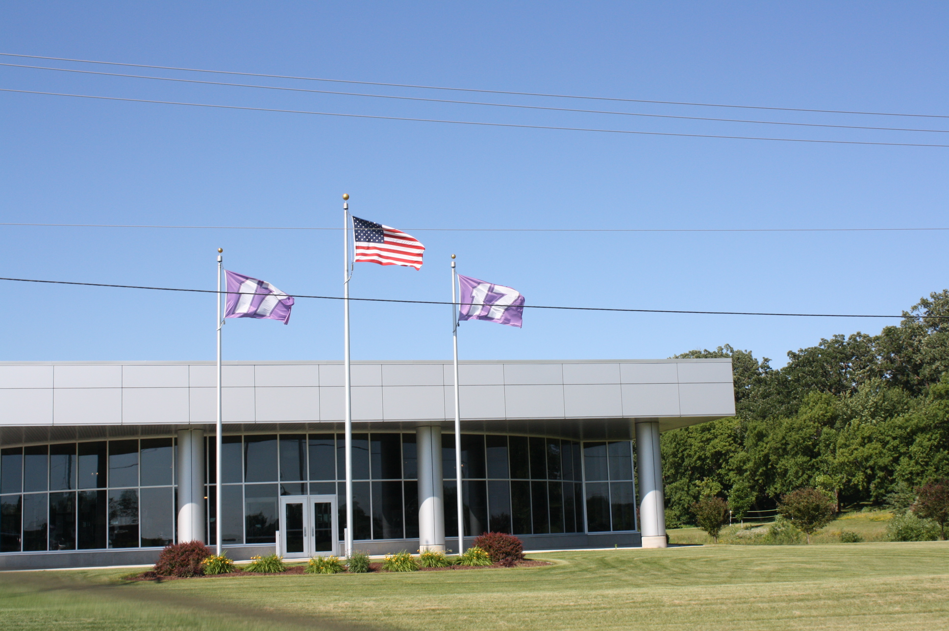 The Matt Kenseth fan museum on the west edge of Cambridge, Wisconsin.